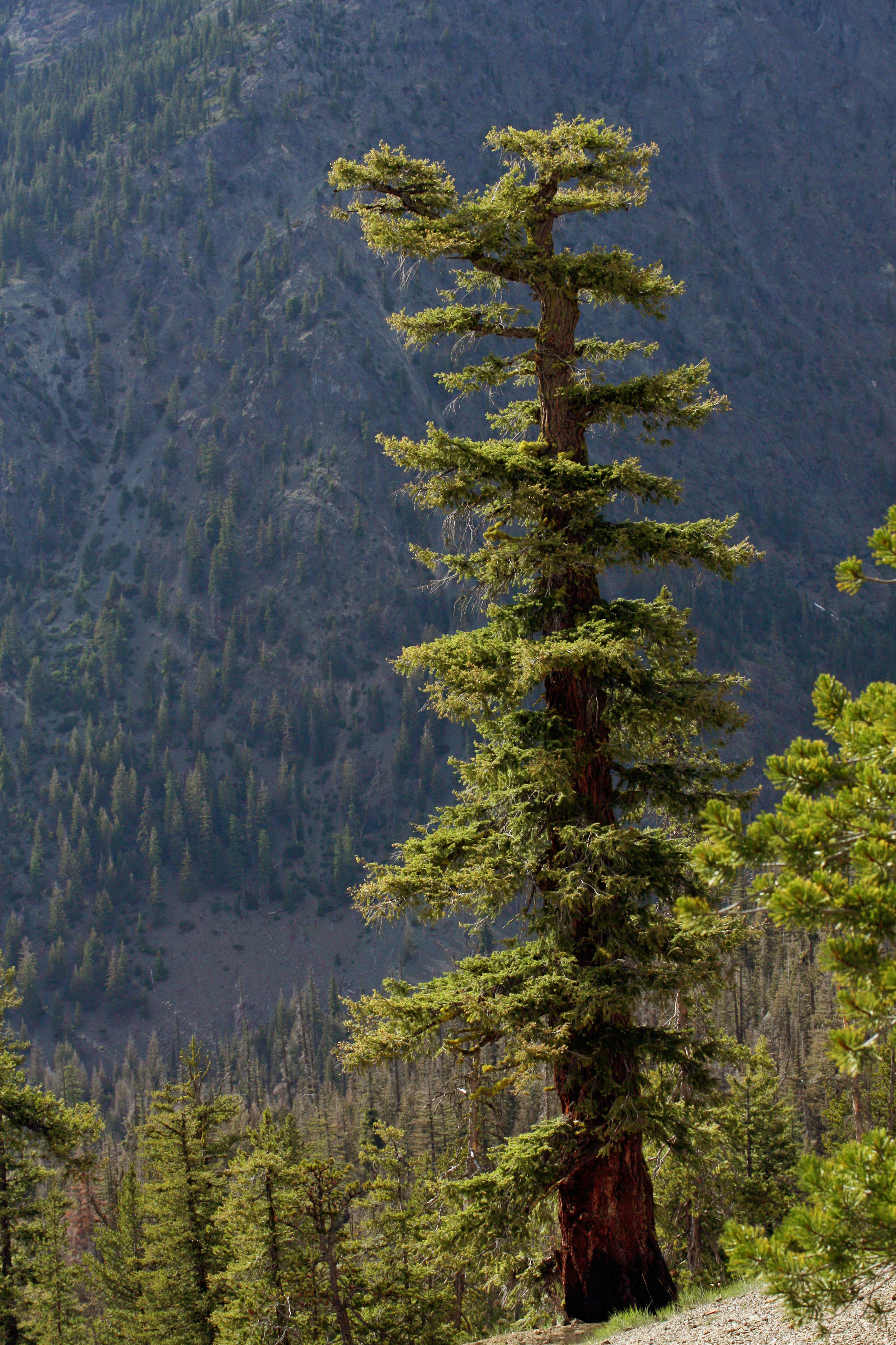 Coast Douglas-fir (P. m. var glauca is not present in Kittitas County.) [1]